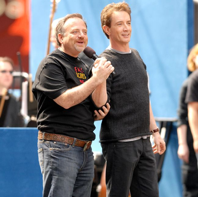 Martin Short & Marc Shaiman, Broadway on Broadway, September 10th 2006.